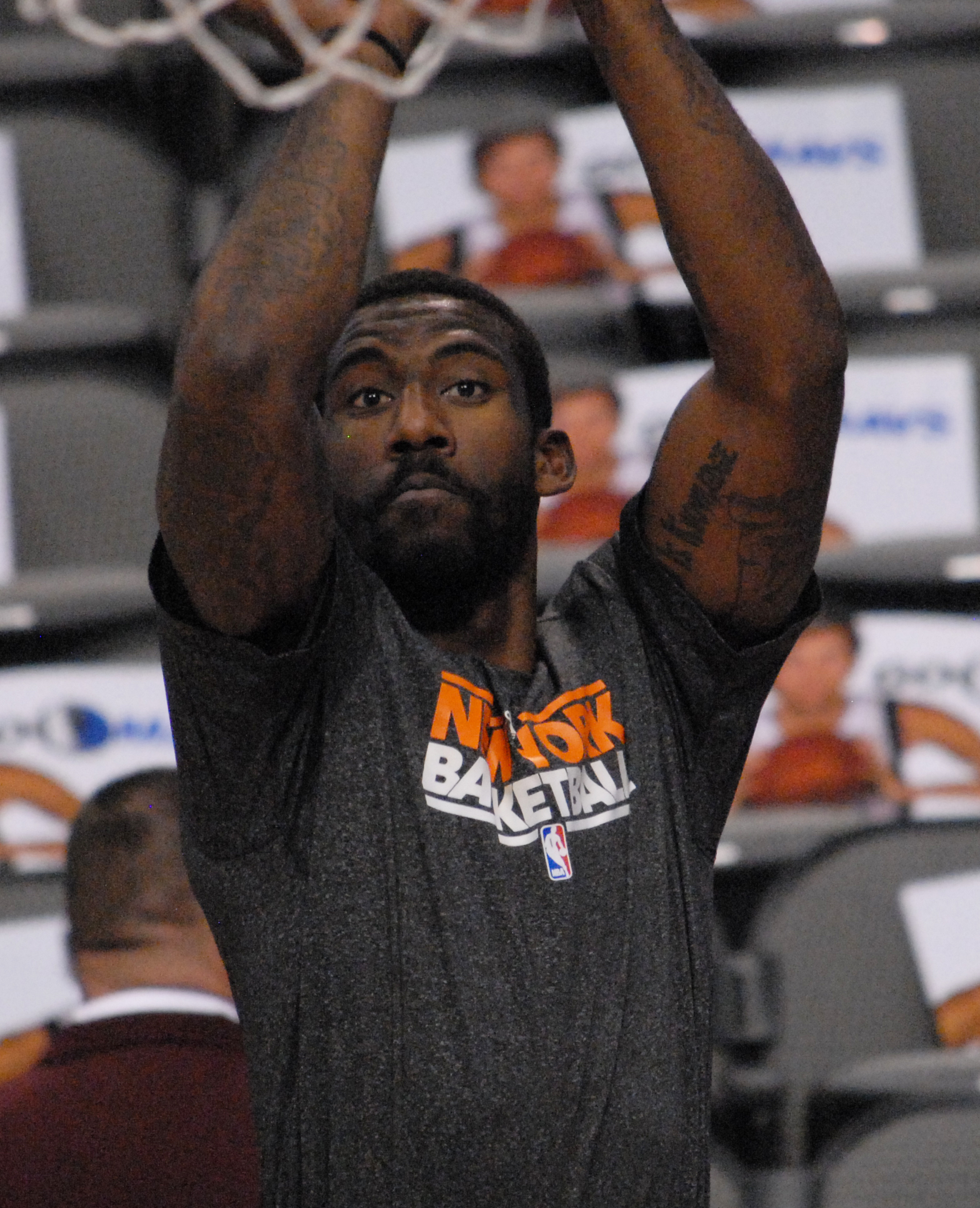 Amar'e Stoudemire with the New York Knicks